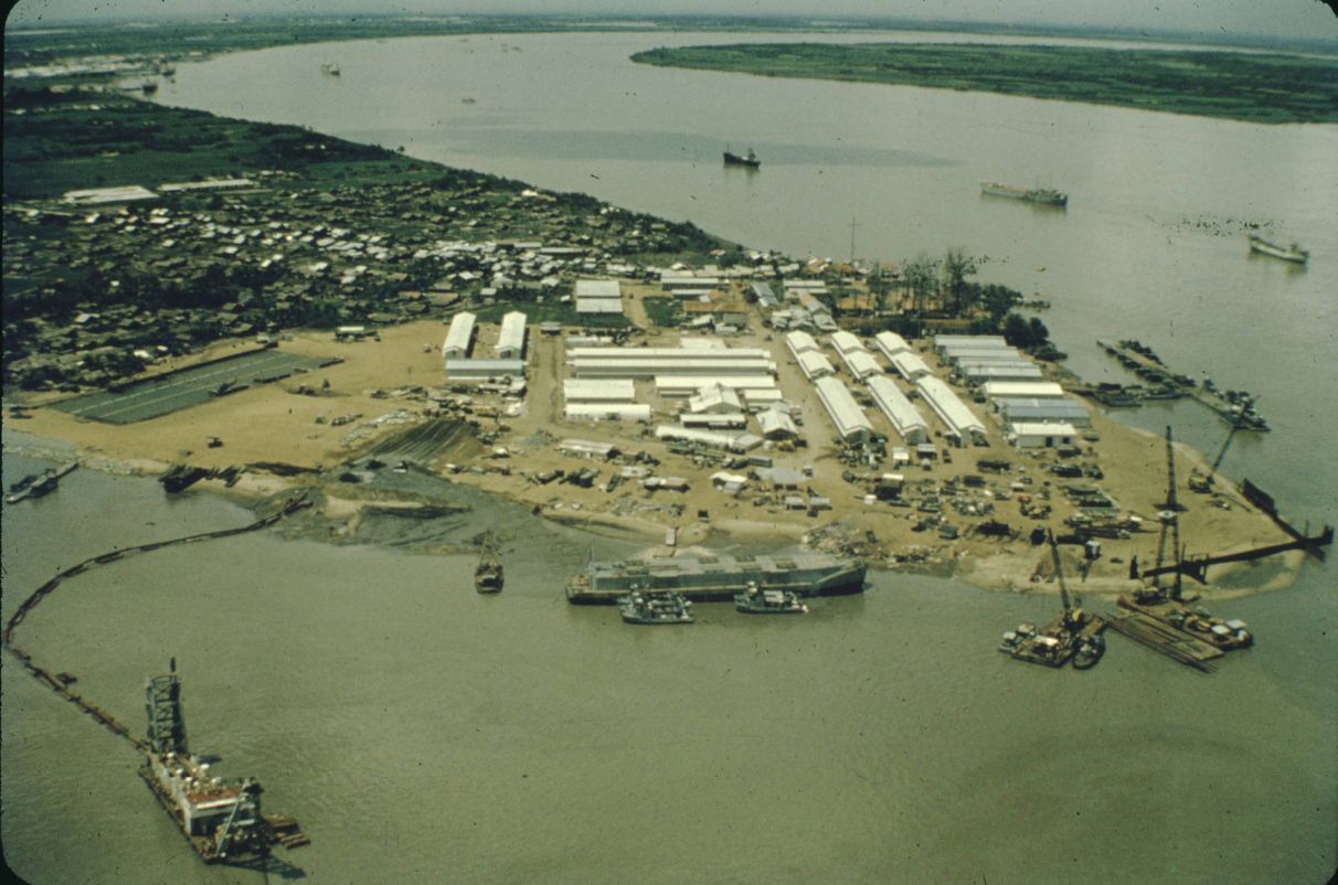 Navy facilities at Nha Be, on the left are a helicopter parking apron and revetments which were recently constructed by elements of the 159th Engineer Group.